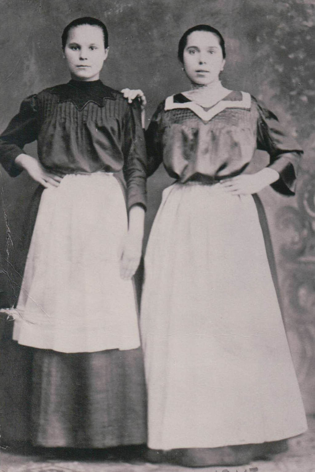 Motyka-anna_aniela_brusno nove